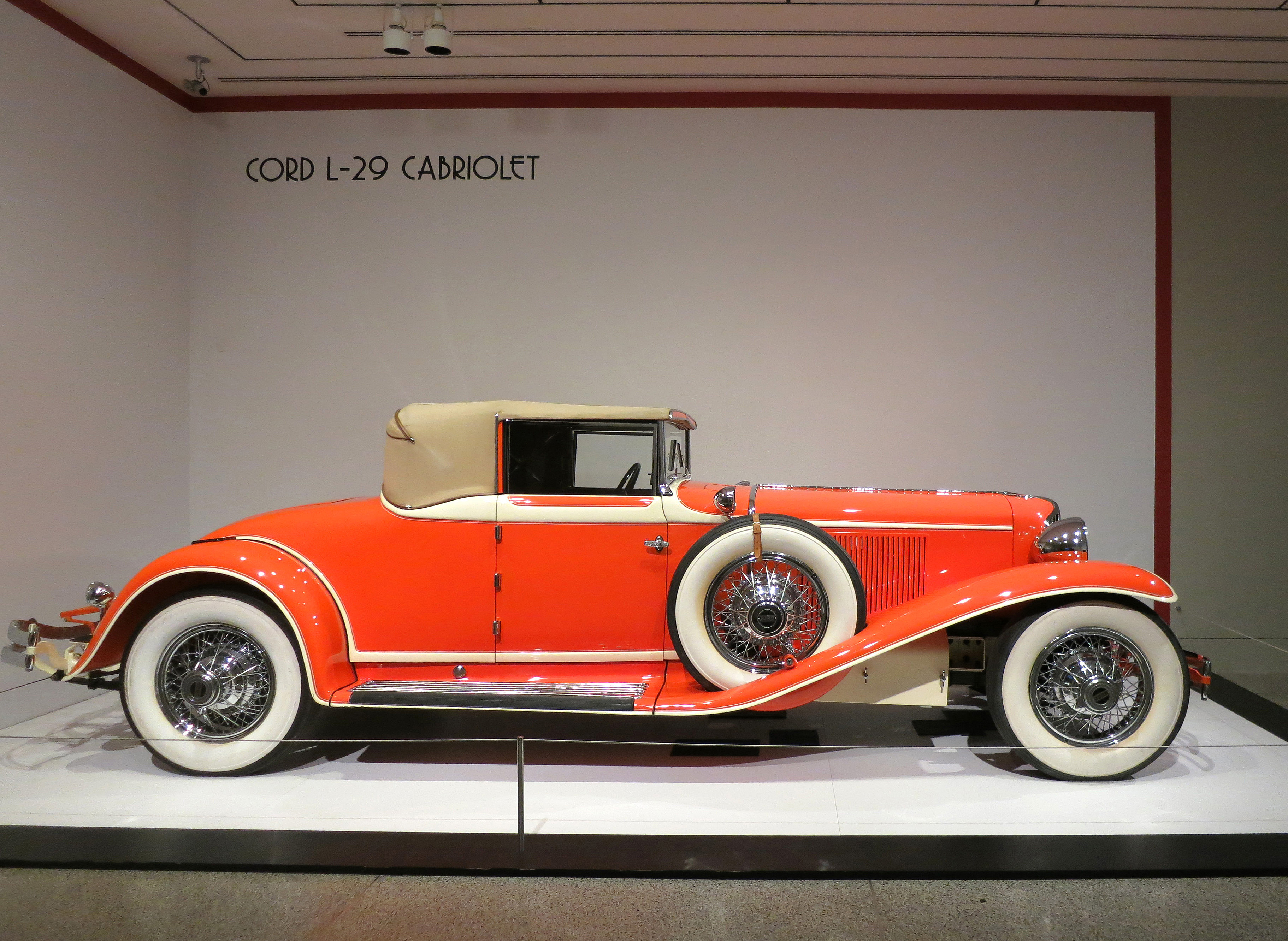 Cord L-29 Cabriolet (file incorrectly named L-20)